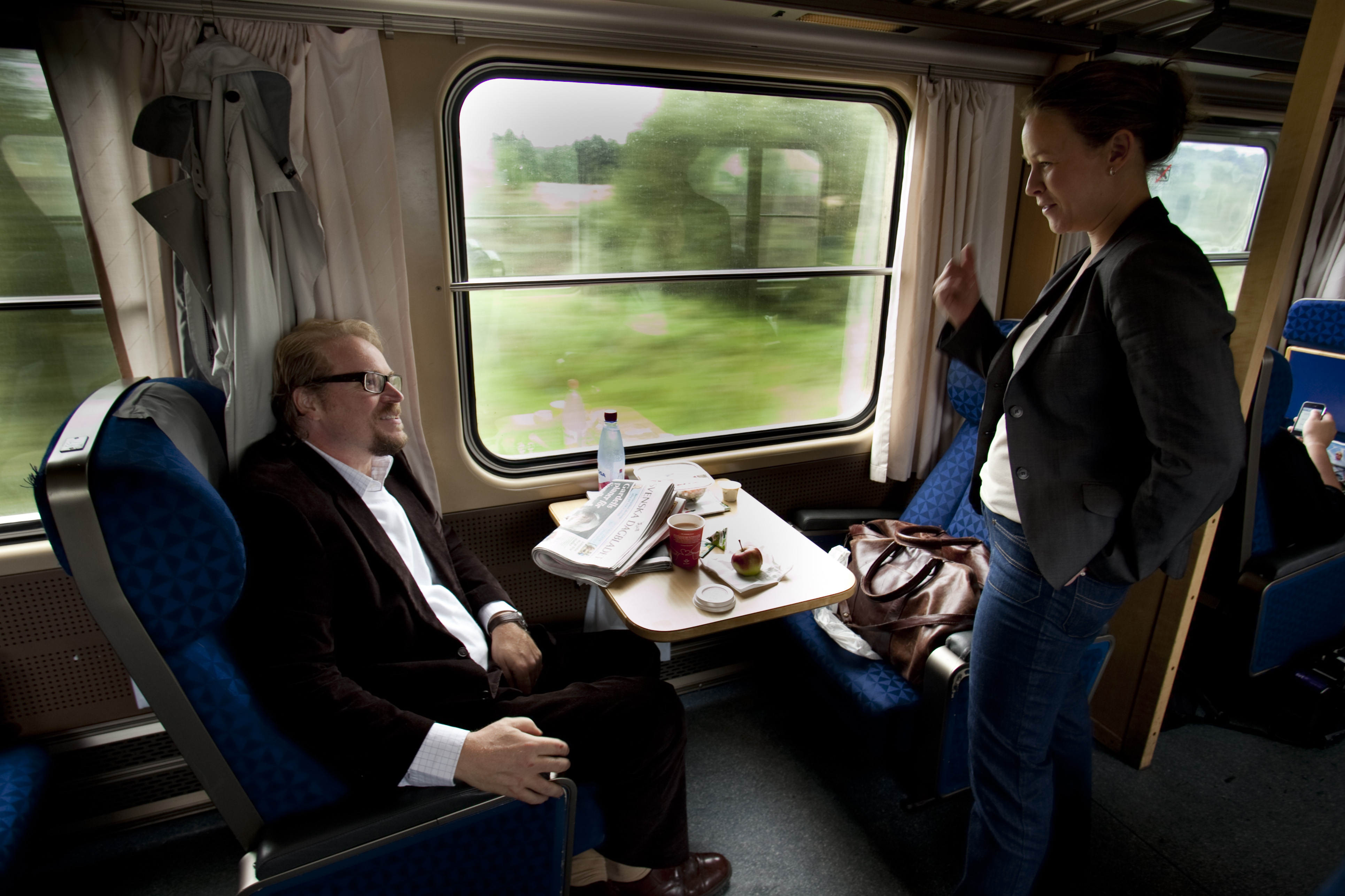 Maria Wetterstrand (MP) says hello to Fredrik Lindström during en route to Västerås on the days before the swedish elections of 2010. 100824.